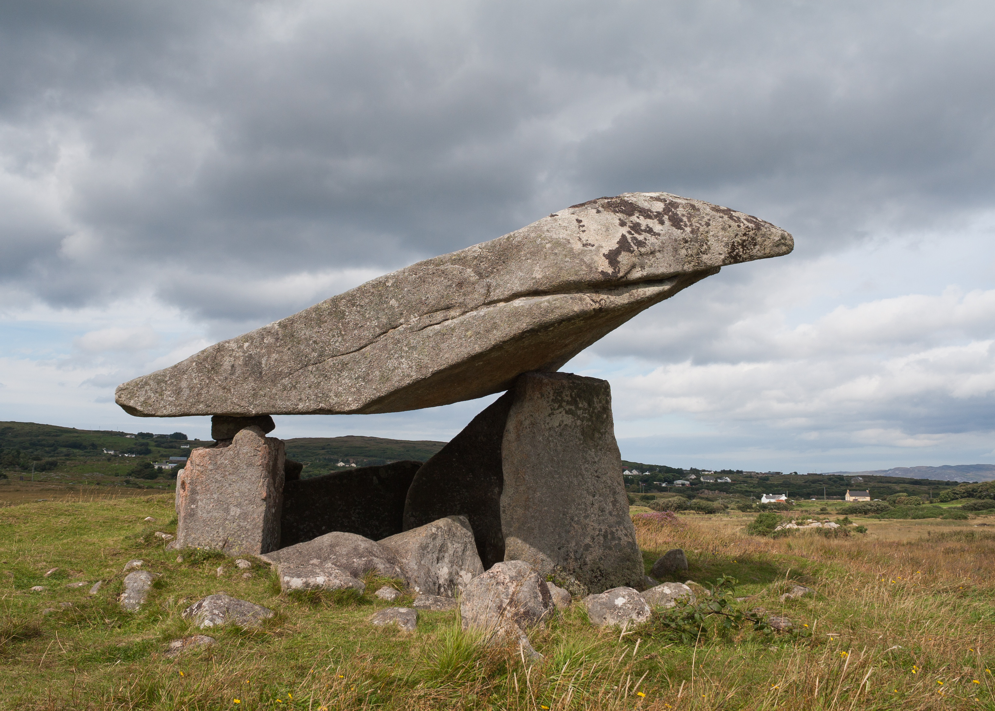 Larger chamber of the portal tomb Dg. 70 as seen from south-east.